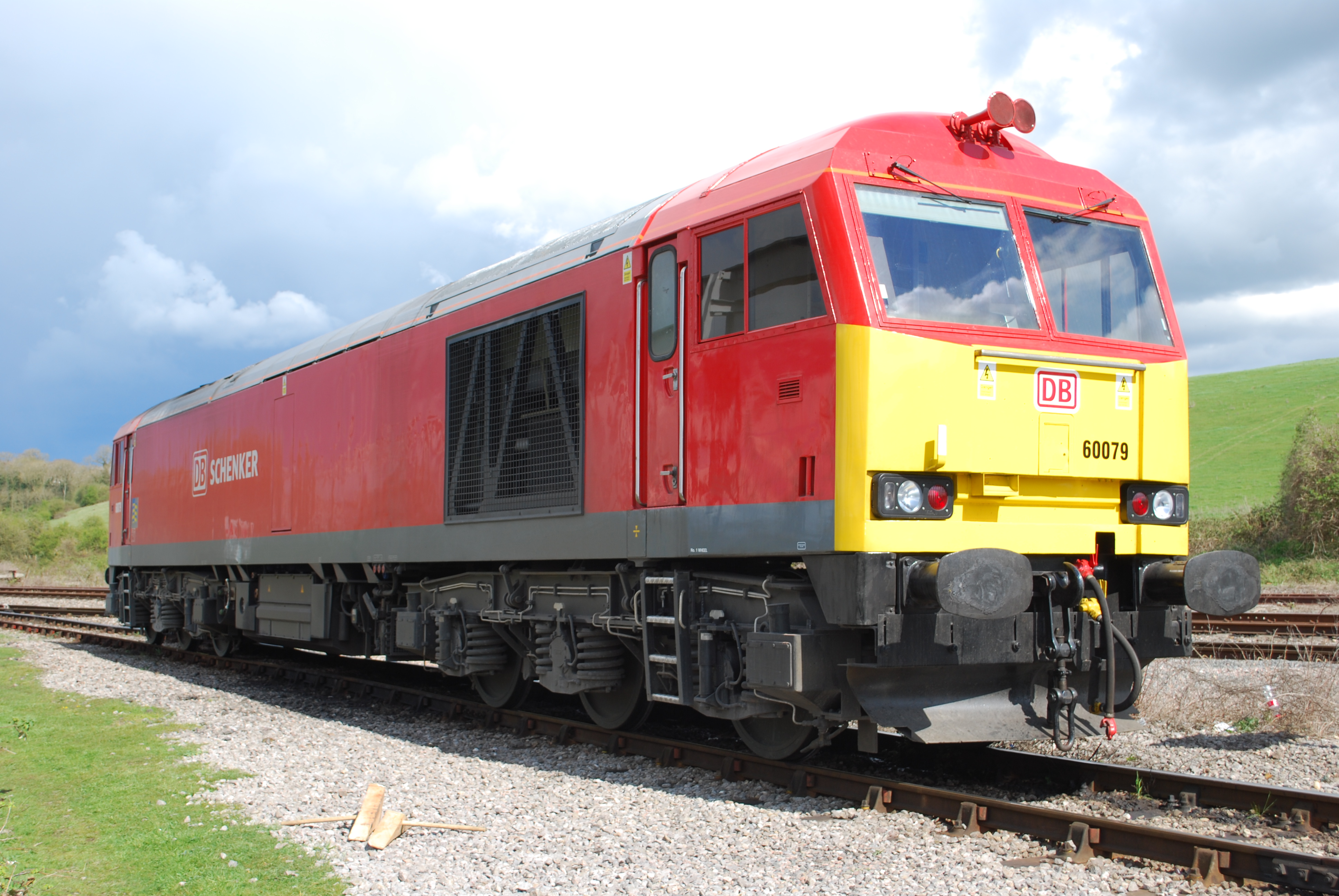 Brush Class 60 3,100hp Co-Co No.60 079 "Foinavon" (though the nameplate has been removed, presumably after the last refit) of DBS in it's red livery at the Murco Oil Terminal, Westerleigh, 04/12.